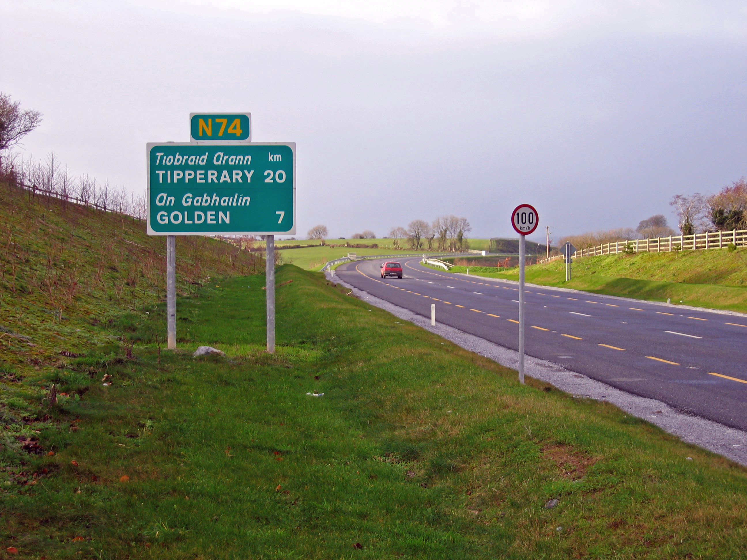 N74 near Cashel, County Tipperary, Ireland